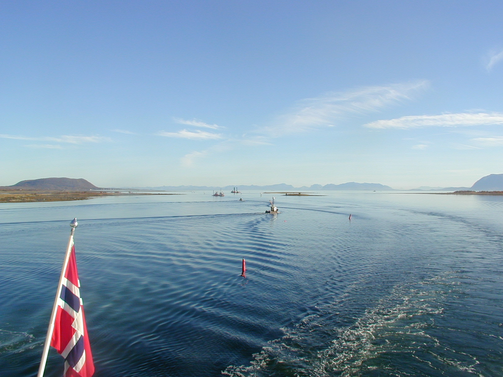 Risøysundet sound between the islands Hinnøya and Andøya in Nordland county, Norway. Original description: P9220075